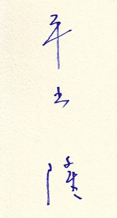 Signature of Hiraide Takashi